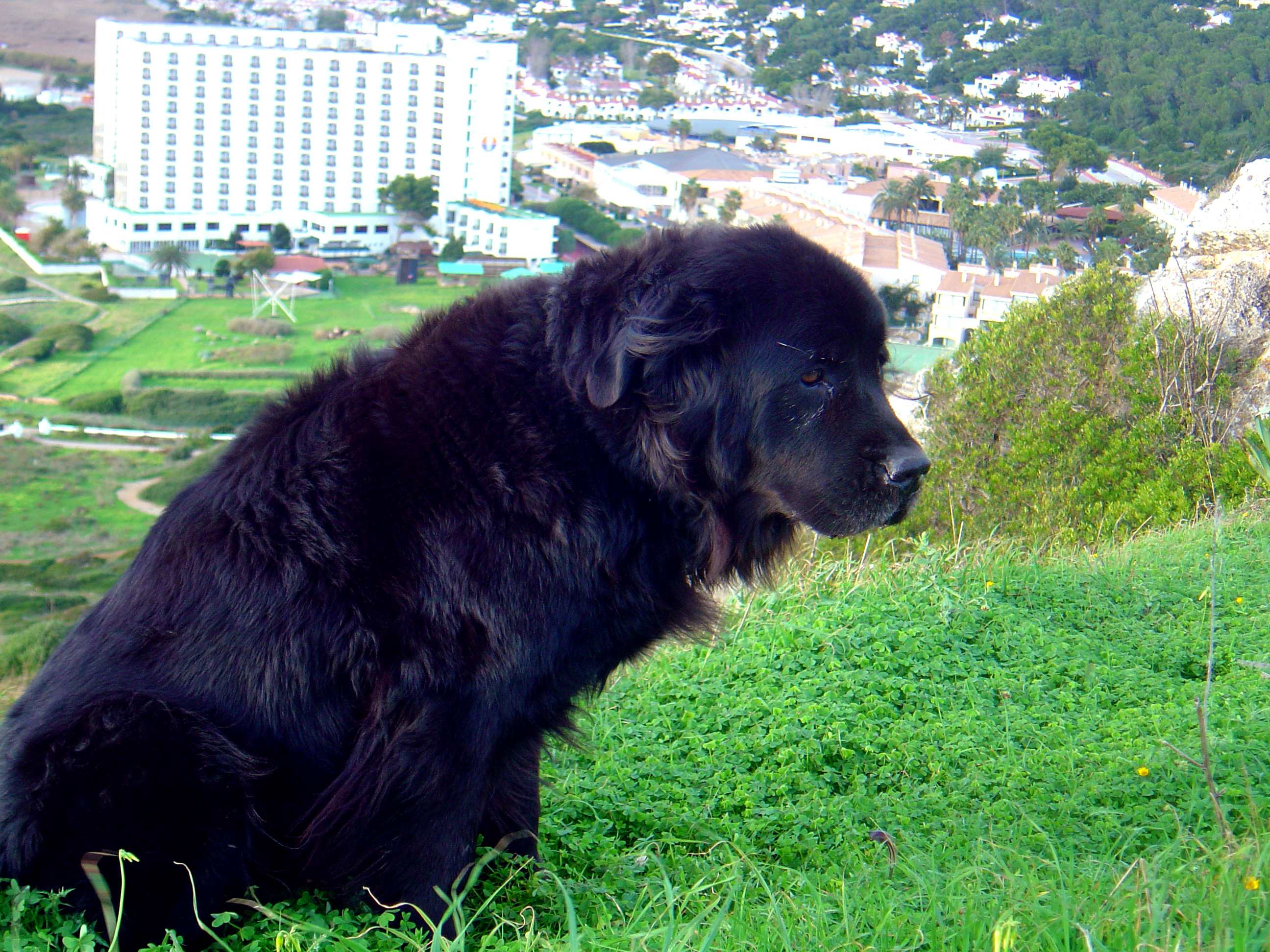 Dog